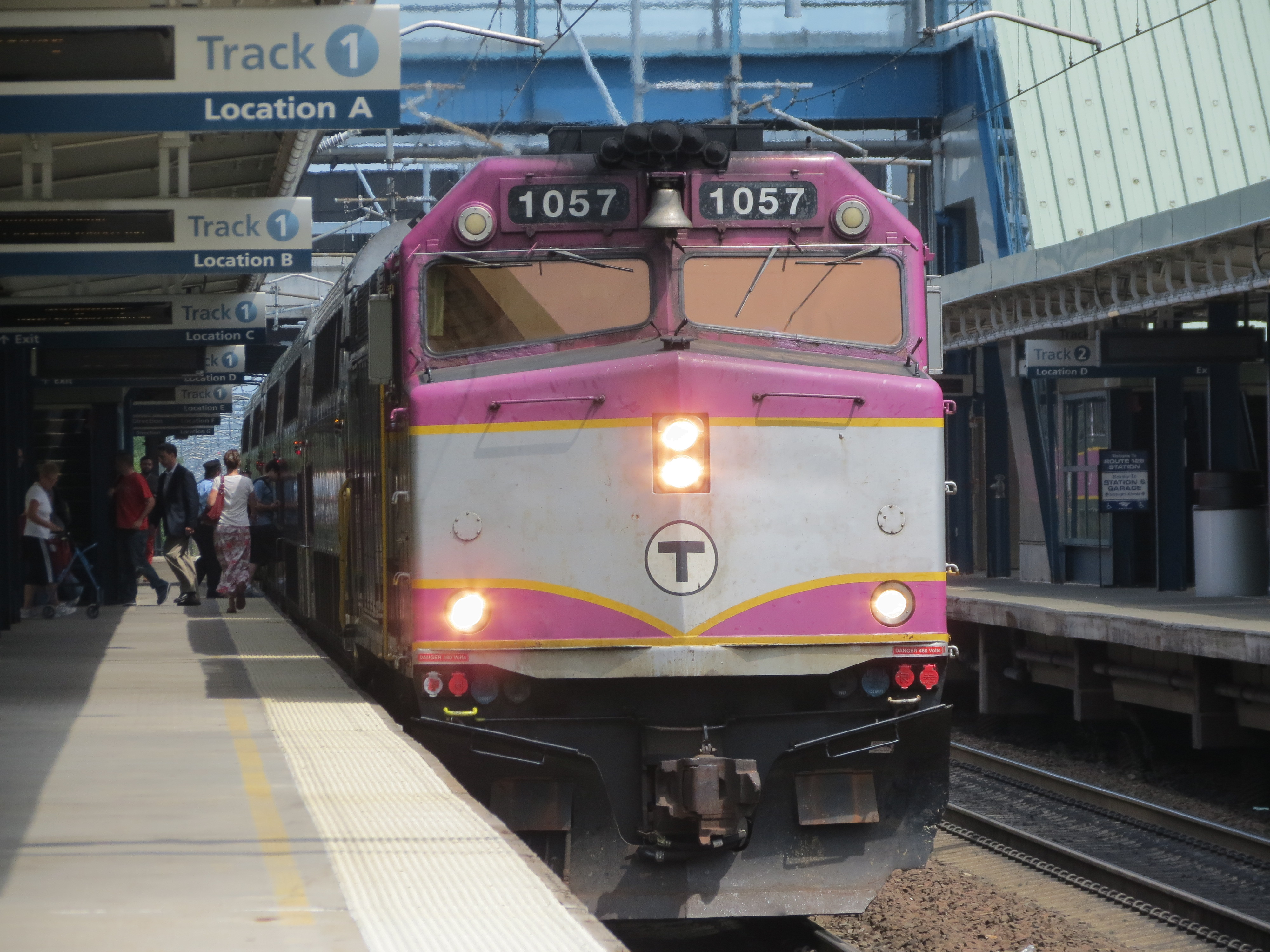 MBTA F40 locomotive idling at Route 128 station on Track 1